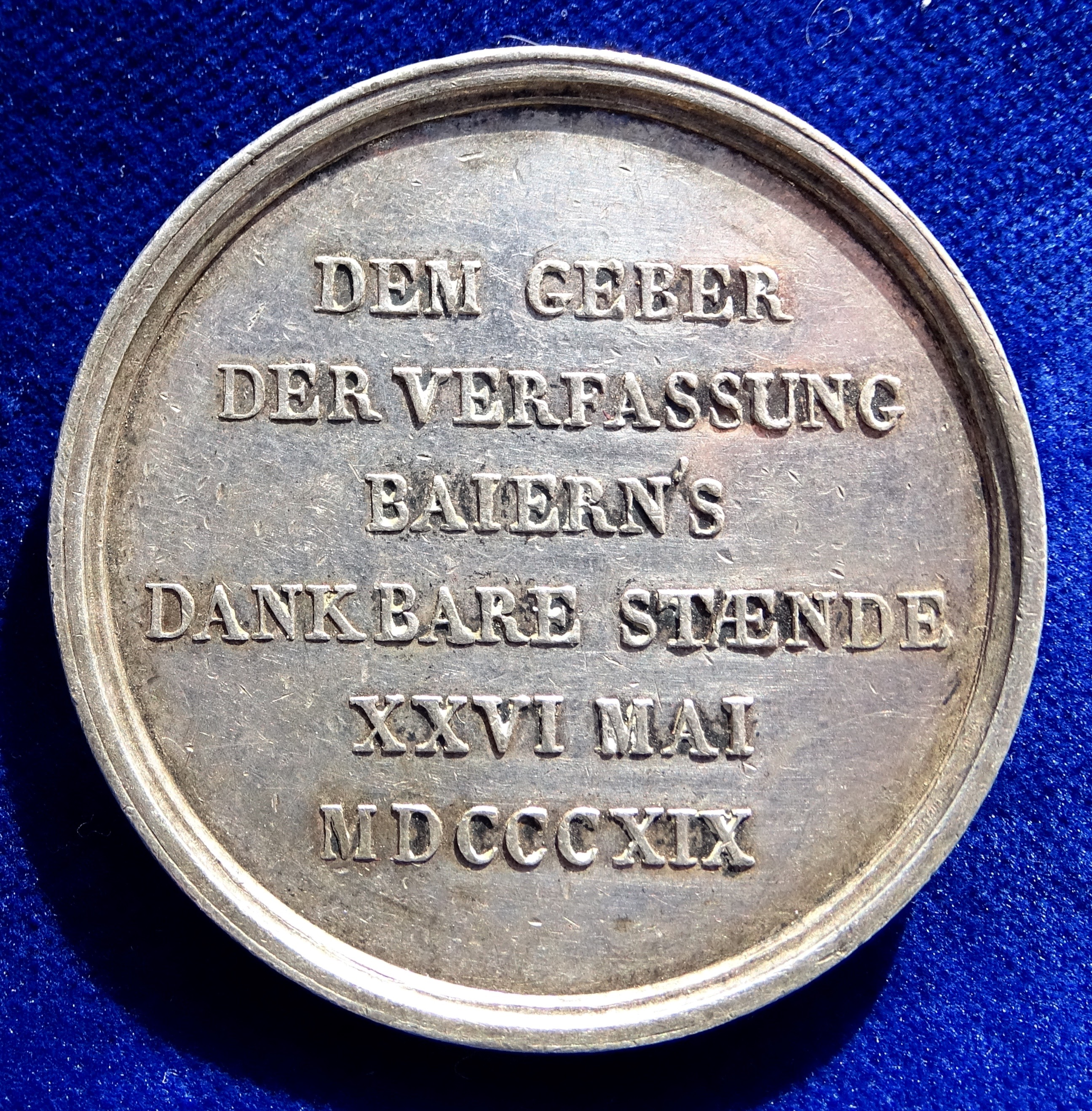 Bavaria Parliament Silver Medal 1819 by Losch, VF. Presentation medal of the Bavarian Parliament (Bayerische Ständeversammlung) to their King Maximilian (IV.) I. Joseph, 1799 - 1825 on the first anniversary of the constitution of 1818. Medallion d.= 48 mm. 43.77 g Ag. Head r., curved above: "MAXIMILAN IOSEPH"/ 6 lines: "DEM GEBER DER VERFASSUNG BAIERN' S DANKBARE STAENDE XXVI MAI MDCCCXIX". Wittelsbach 2516; Forrer III, p. 478. Medallist: (Joseph) Losch, 1770 Amberg - 1826 Munich, Bavaria, Germany. Condition: VERY FINE, no hidden faults.